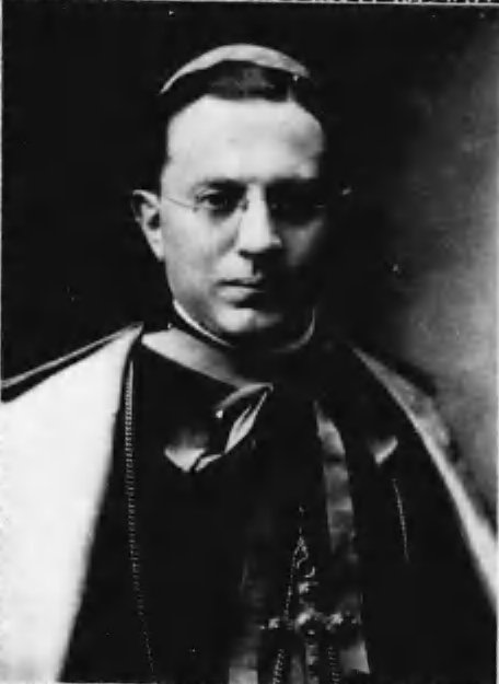 Cardinal Paolo Marella around 1942